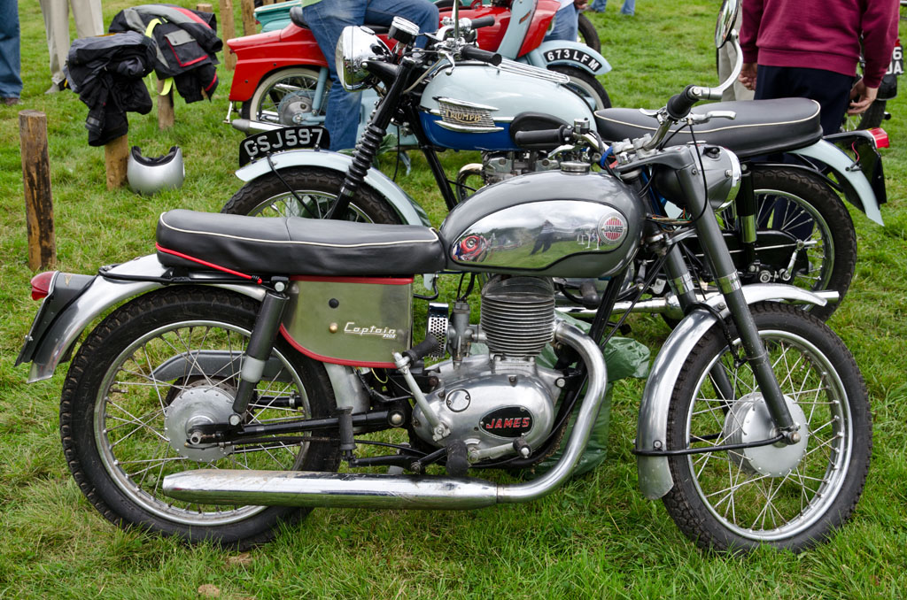 Cholmondeley Classic Car & Bike Show 02/09/2012 1961 / 62 James Sports Captain. L20S.